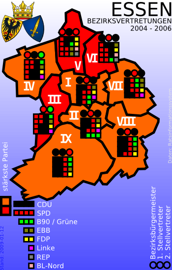 composition of the district councils in the city of Essen in Northrhin-Westfalia 2004 - 2009 (as on 2009-01-12)